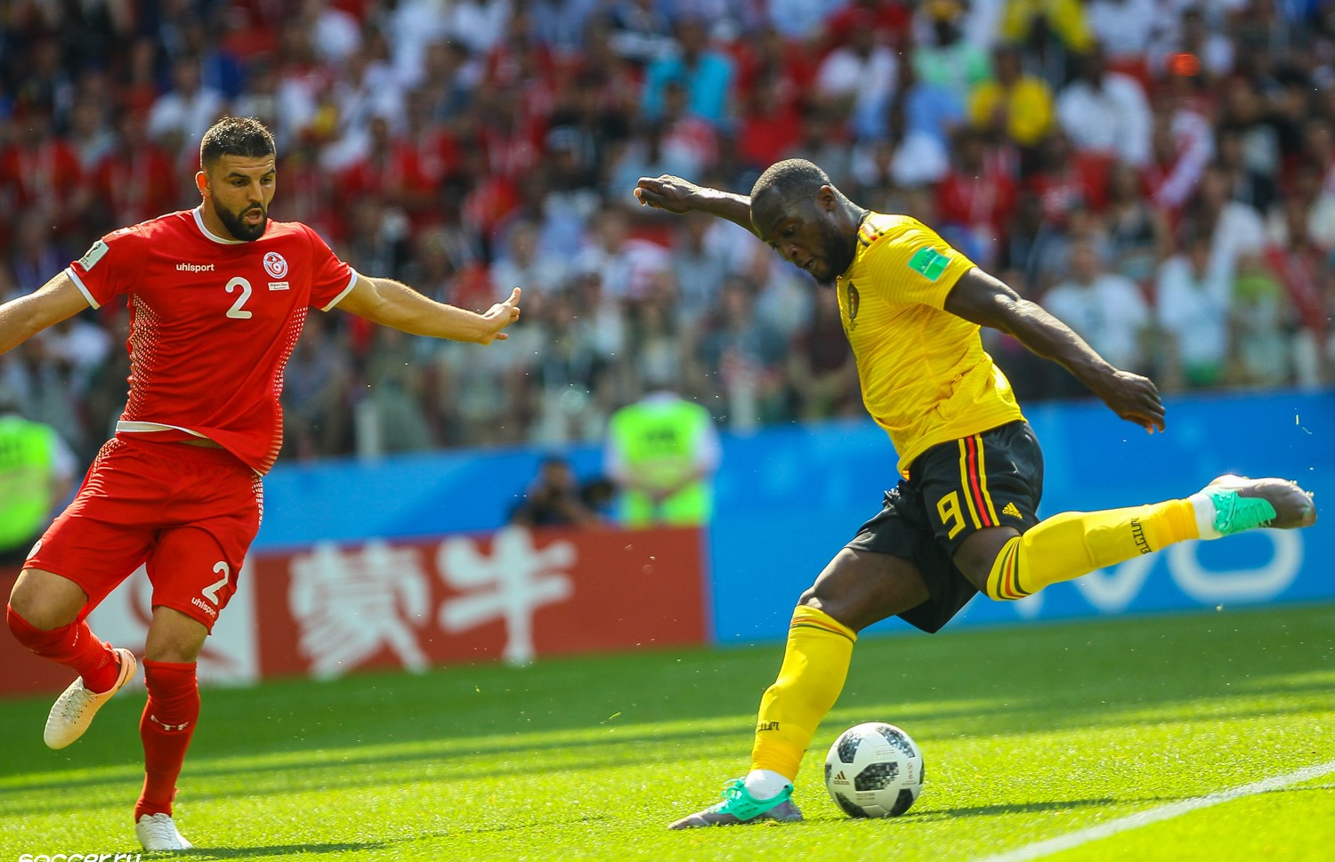 Romelu Lukaku, Syam Ben Youssef